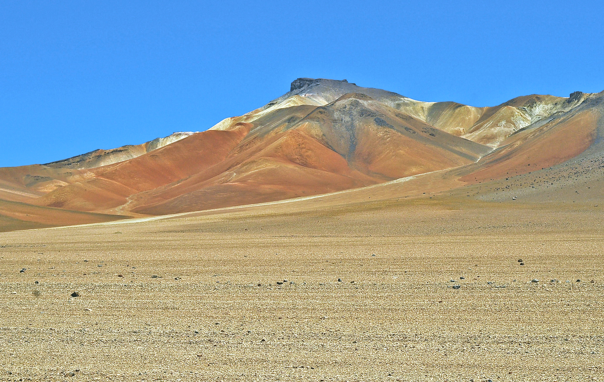 Cerro Amarillo ("Yellow Mountain") from the Pampa Jara , also so-called "Salvador Dalí Desert", Potosí, Bolivia